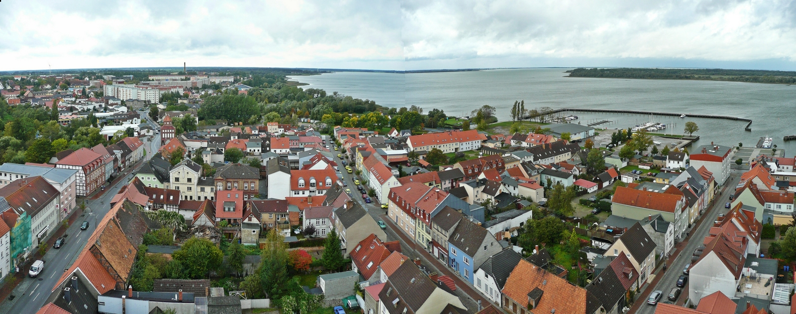 panorama of the western part of Ribnitz-Damgarten (view from the St. Mary's Church).